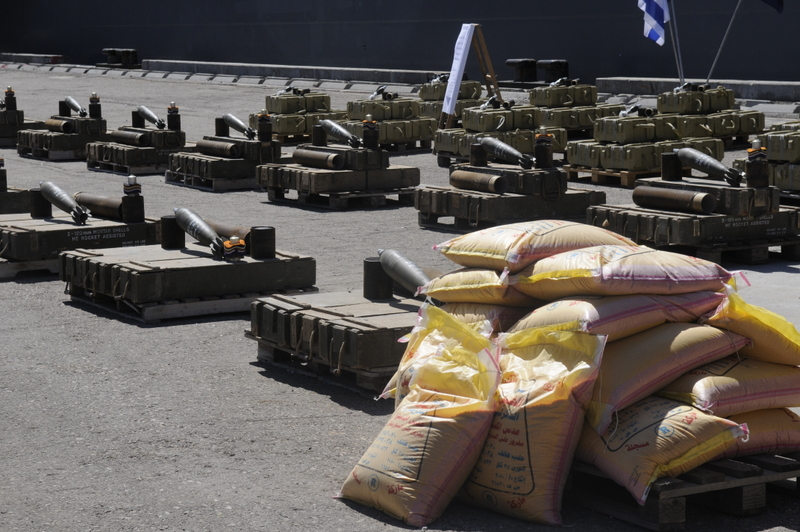 March 16, 2011 Pictured here: Mortar shells next to the sacks which hid them on-board the "Victoria". There were approximately 2,500 mortar shells on the ship. The weaponry was transferred without the knowledge of the vessel's crew. The IDF Navy intercepted the cargo vessel “Victoria” loaded with various weaponry. According to assessments, the weaponry on-board the vessel was intended for the use of terror organizations operating in the Gaza Strip. The vessel, flying under a Liberian flag, was intercepted some 200 miles west of Israel’s coast. This incident was part of the Navy’s routine activity to maintain security and prevent arms smuggling, in light of IDF security assessments. The vessel initially departed from the Lattakia Port in Syria, and then proceeded to Mersin Port in Turkey. The IDF emphasizes that Turkey has no connection to this incident regarding the weaponry uncovered on-board. For more information